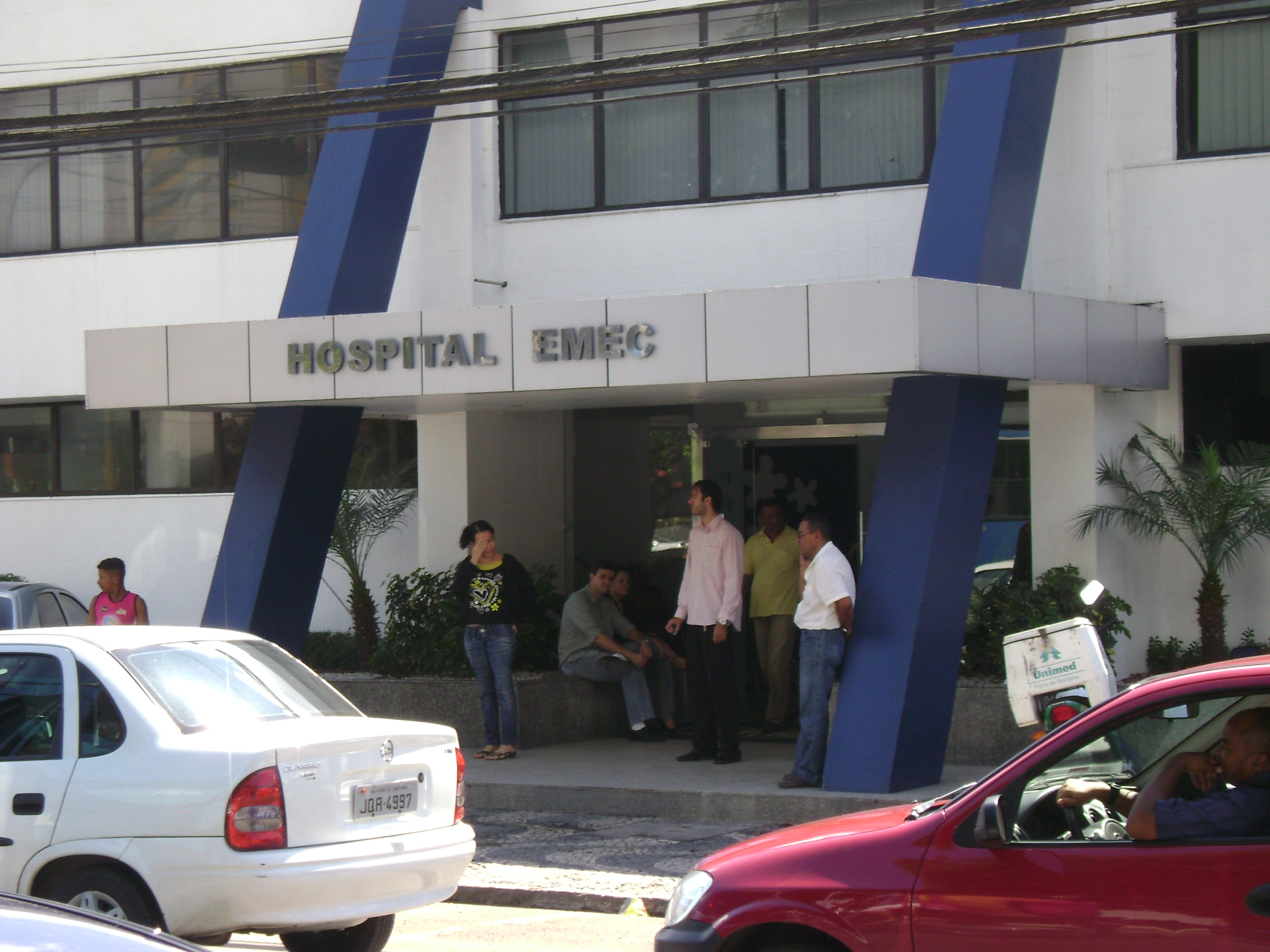 Fachada do Hospital EMEC, em Feira de Santana, Bahia, Brasil.